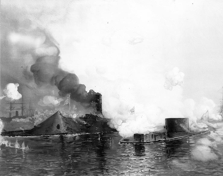 USS Monitor in action with CSS Virginia, 9 March 1862 Aquarelle facsimile print of a painting by J.O. Davidson. Collection of President Franklin D. Roosevelt. Removed caption read: Photo # NH 45973 USS Monitor vs. CSS Virginia, print after a painting by J.O. Davidson